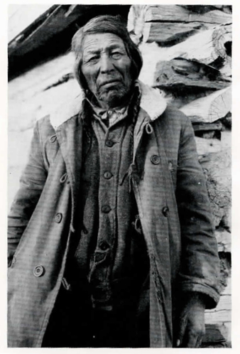 Chief Flying Hawk, 1931, shortly before he passed to the Sand Hills. Other information No. This work is in the public domain because it was published in the United States between 1923 and 1963 and although there may or may not have been a copyright notice, the copyright was not renewed. Unless its author has been dead for the required period, it is copyrighted in the countries or areas that do not apply the rule of the shorter term for US works, such as Canada (50 pma), Mainland China (50 pma, not Hong Kong or Macao), Germany (70 pma), Mexico (100 pma), Switzerland (70 pma), and other countries with individual treaties. See Commons:Hirtle chart for further explanation.